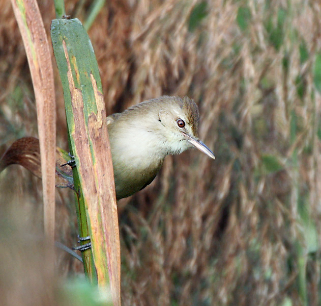 Clamorous Reed Warbler Acrocephalus stentoreus in Kolkata, West Bengal, India.